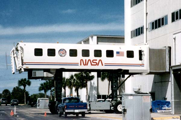 NASA's Crew Transport Vehicle (CTV) — docked to the Baseline Data Collection Facility at Kennedy Space Center.